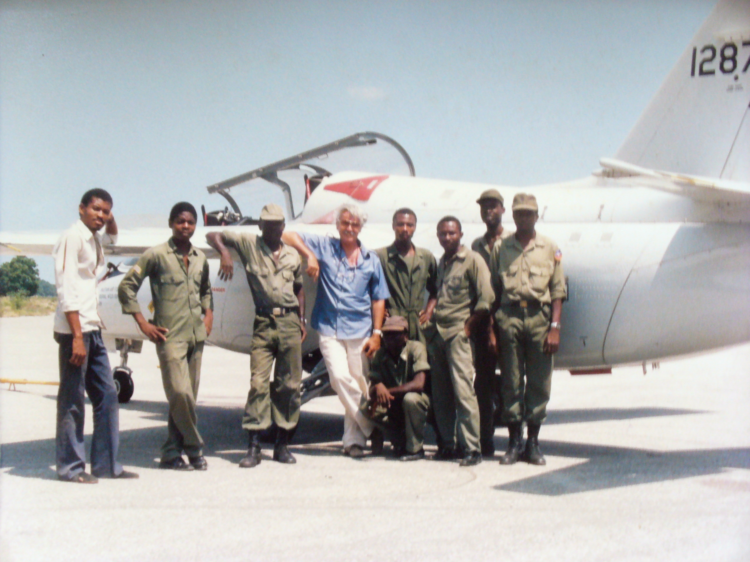 Haiti purchase 4 Marchetti S-211 jets. Lynn Garrison was retained to sell these in 1990. This photo was taken on the Haitian military airfield - Bowen Field - in Port-au-Prince, Haiti